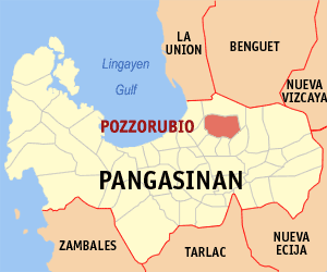 Map of Pangasinan showing the location of Pozzorubio